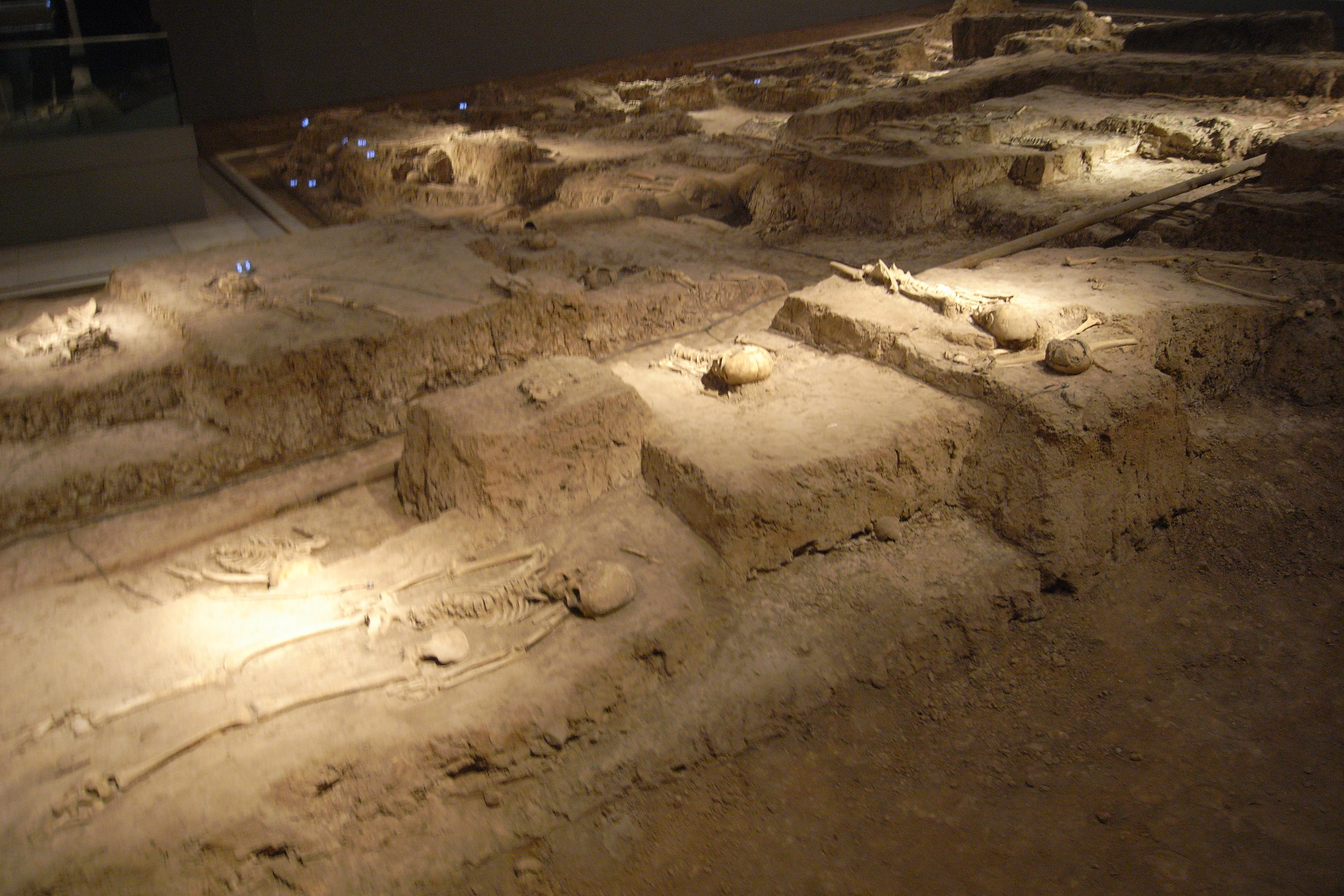 Exif_JPEG_PICTURE the memorial hall of the victims in nanjing massacre by japanese invaders nanjing jiangsu, china